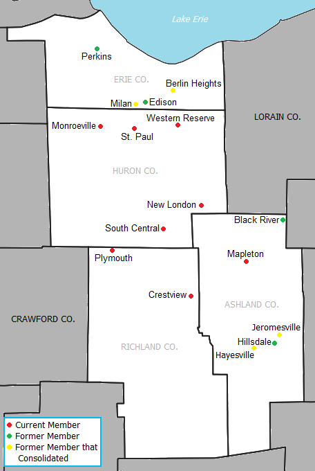 This map shows the locations of every school that has been a member of the Firelands Conference from 1960 to present-day.